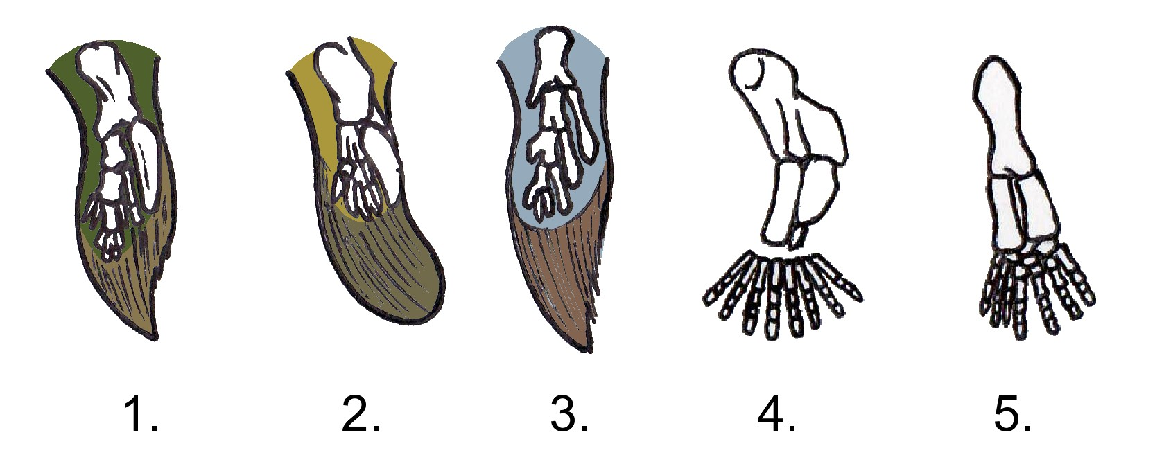 Comparison between the fins of lobe-finned fishes ( Sarcopterygii ) and legs of early tetrapods. 1. Tiktaalik. 2. Panderichthys. 3. Eusthenopteron. 4. Acanthostega. 5. Ichthyostega ( hindleg ).